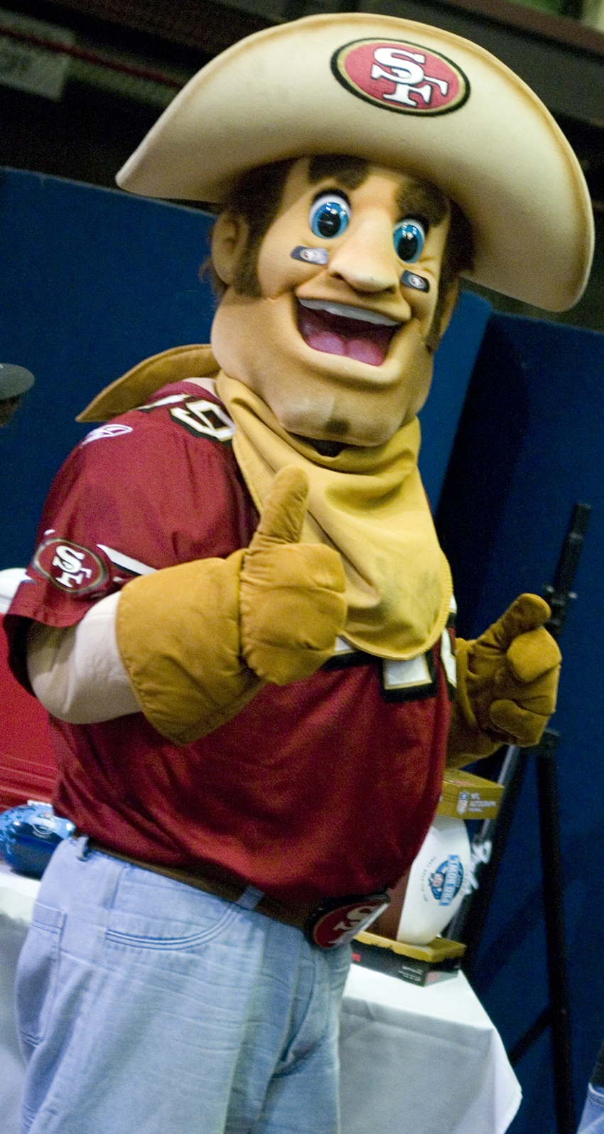 ALIAMANU MILITARY RESERVATION, Hawaii - The San Francisco 49ers mascot, Sourdough Sam, flashes a thumbs up during the Pro Bowl Meet and Greet, Feb. 4. Sourdough Sam, along with numerous other mascots, mingled with family members and kept morale high during the meet prior to the Pro Bowl game. The Meet and Greet was held in conjunction with the Family and Morale, Welfare and Recreation's (FMWR) expo, which provided family members with information regarding programs and services available on Army-Hawaii installations.